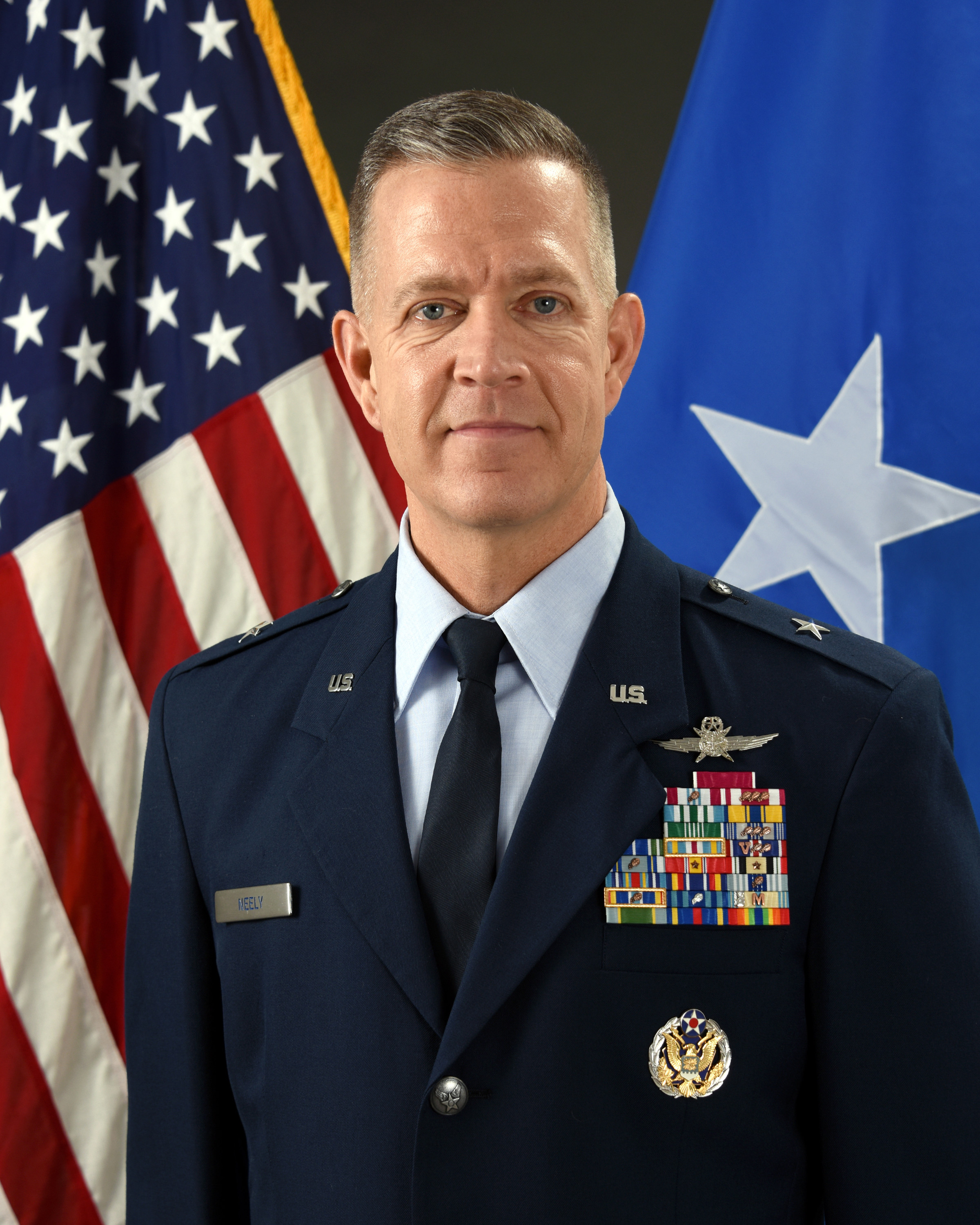 Brig. Gen. Richard R. Neely